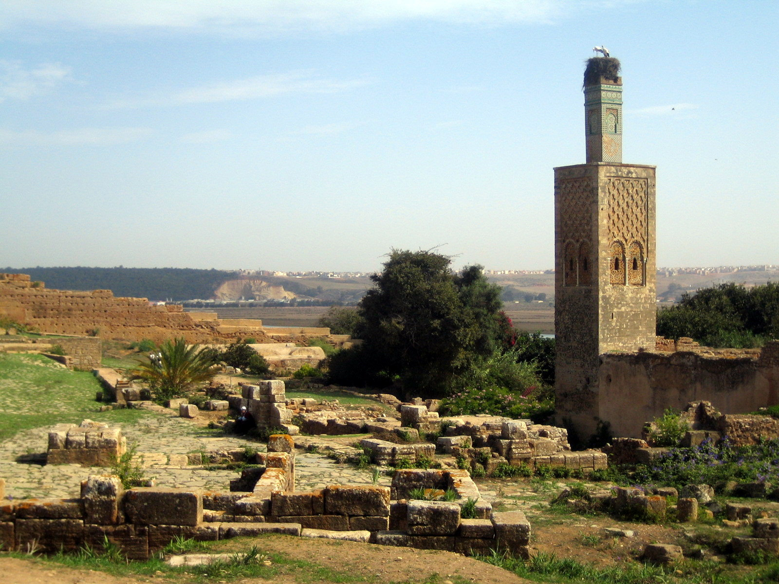 Ruins of Chellah, just outside Rabat, Morocco